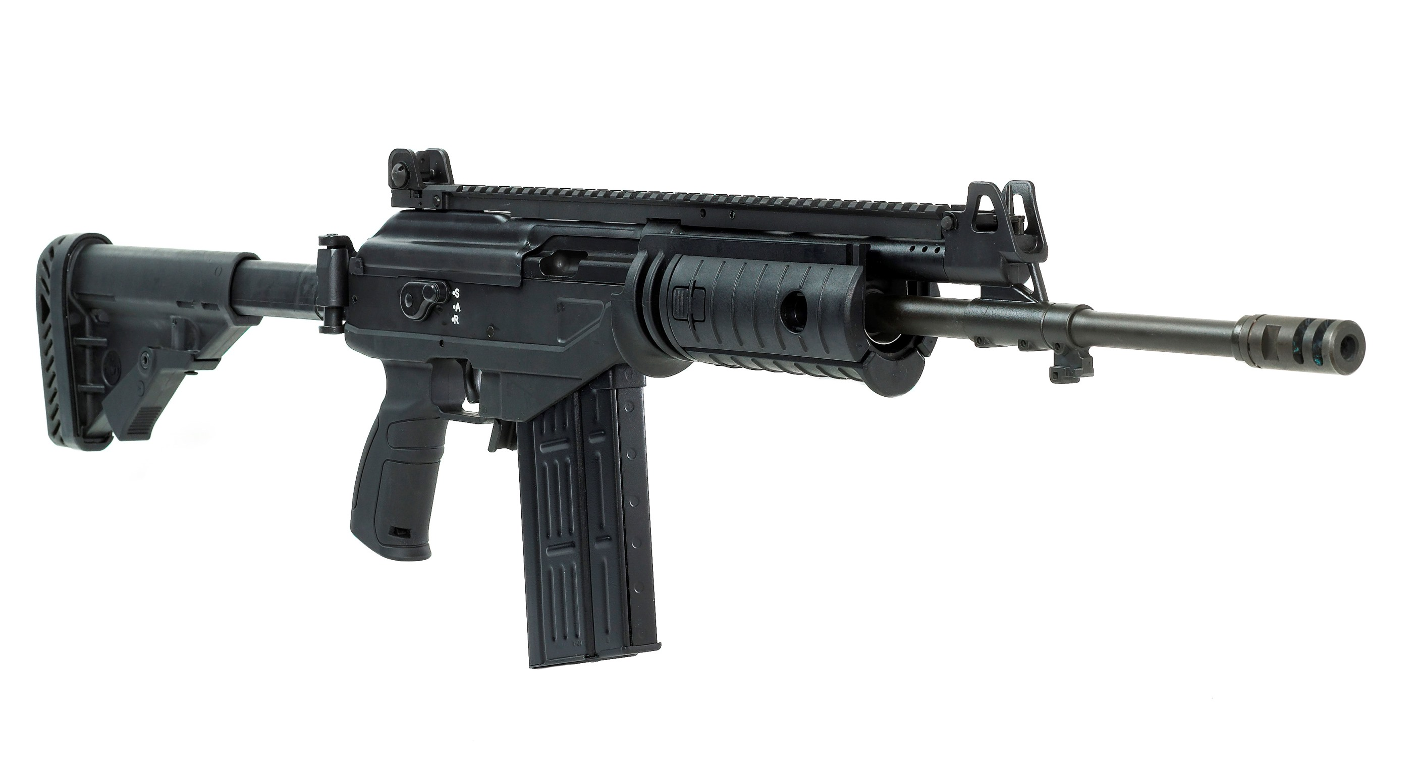 IWI Galil ACE